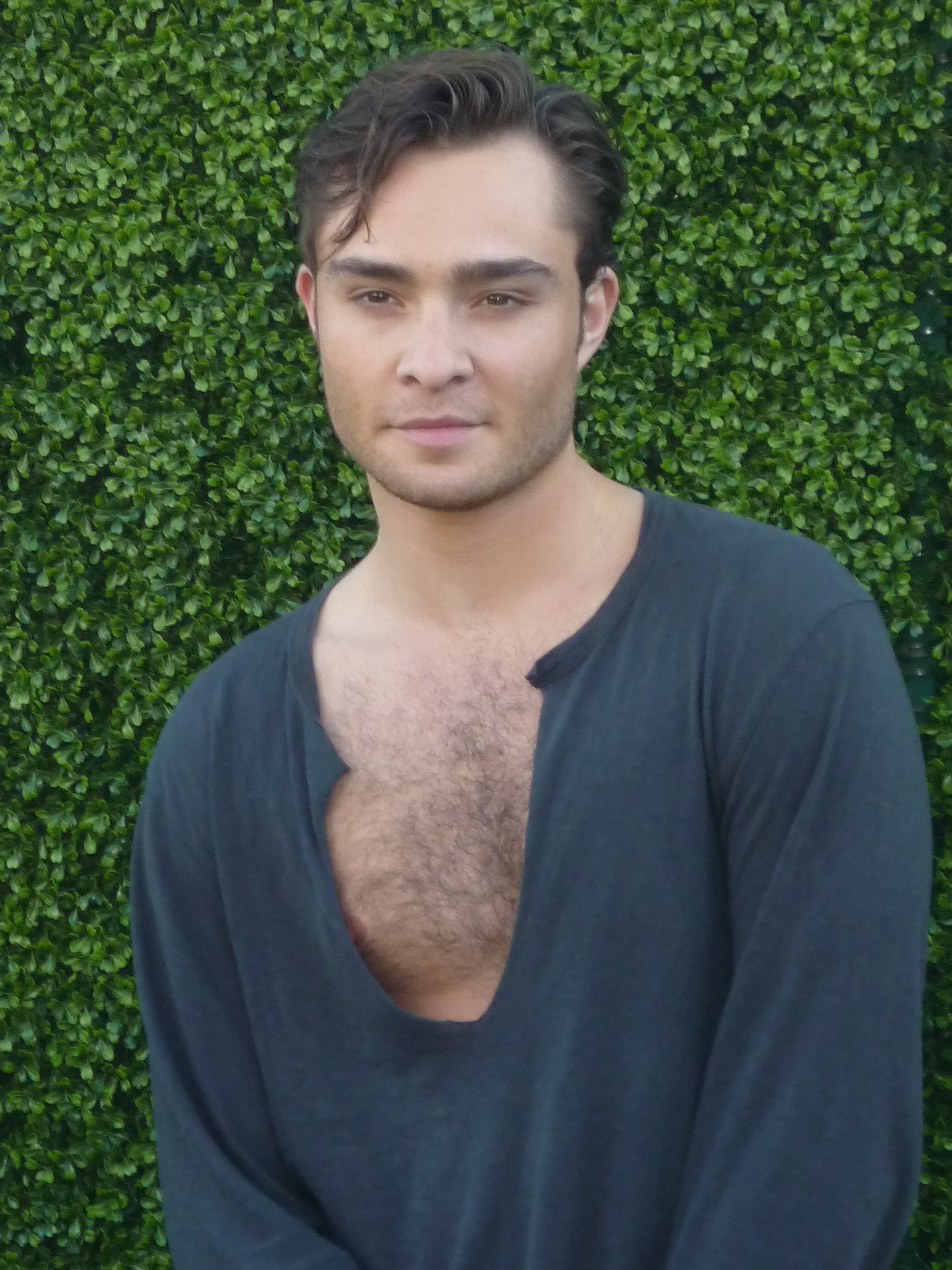 Actor Ed Westwick at 2010 CBS Summer Press Tour Party.